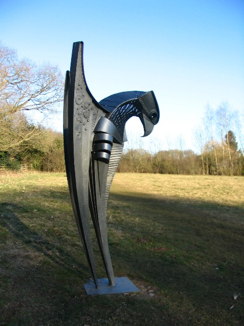 Kestrel, Canley Ford Sculpture by Walenty Pytel at the northern edge of the wild flower meadow.